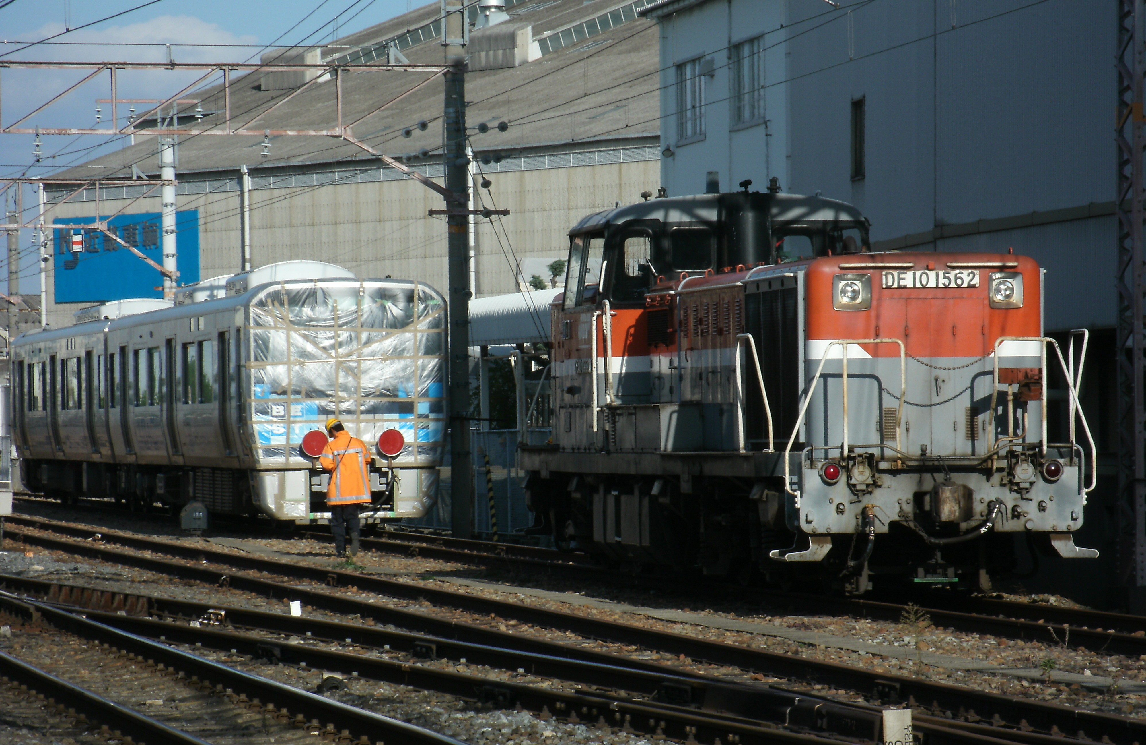 JR Freight Class DE10 with the Smart BEST battery train at Tokuan Station